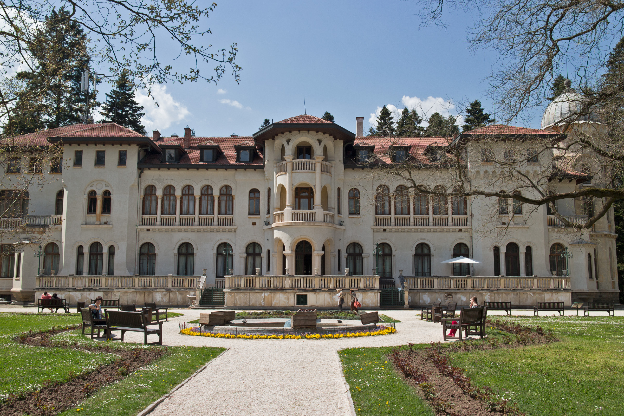 Vrana Palace - spring